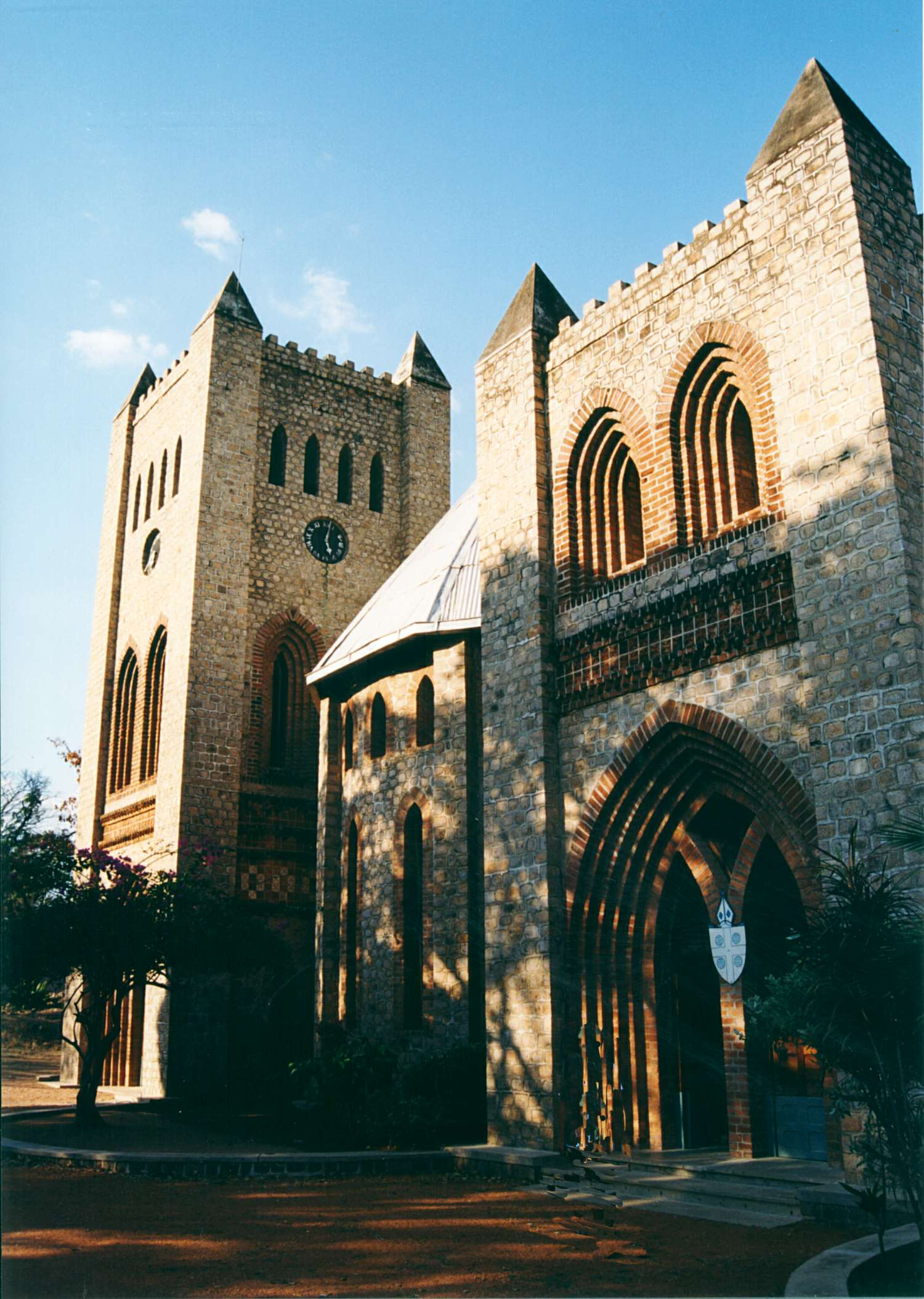 St. Peters' church, one of the largest churches in Africa. In Likoma Island, Malawi